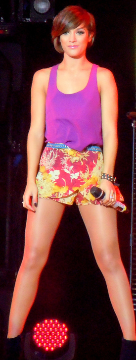 Frankie Sandford performing with The Saturdays in September 2011.